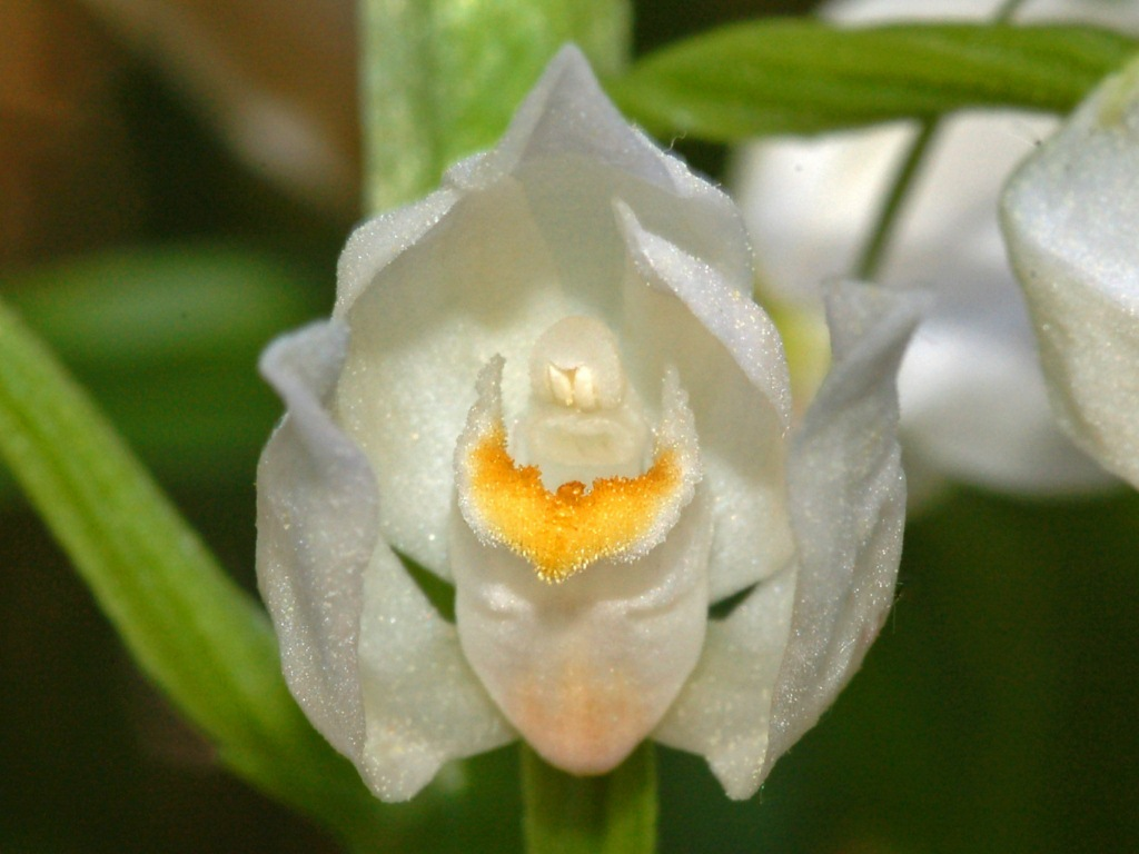 Cephalanthera longifolia - Piani di Praglia, Genova, Italy